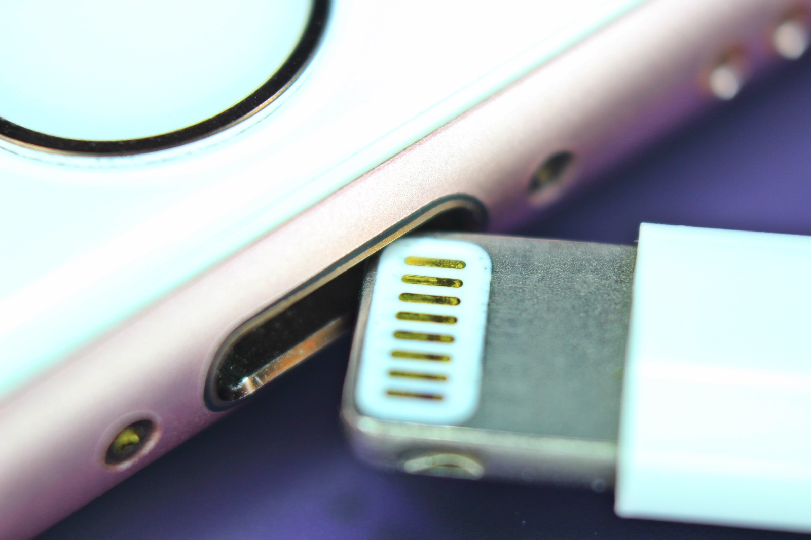 Lightning cable/connector on iPhone